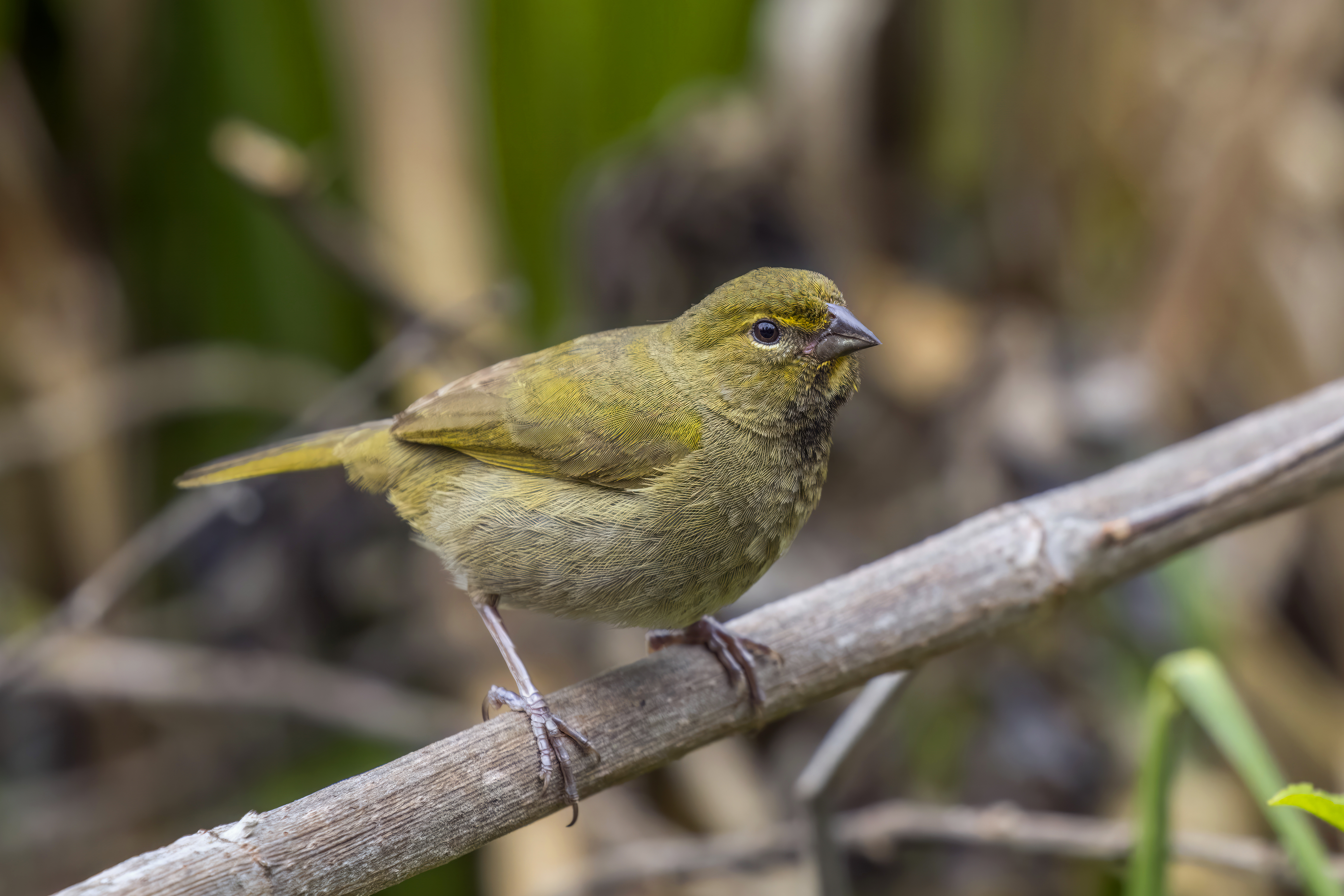 Yellow-faced grassquit (Tiaris olivaceus pucillus) immature male, Mount Totumas cloud forest, Panama